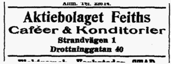 Advertisement, Feiths konditori, Stockholm, the newspaper Rösträtt för kvinnor, May 15, 1914